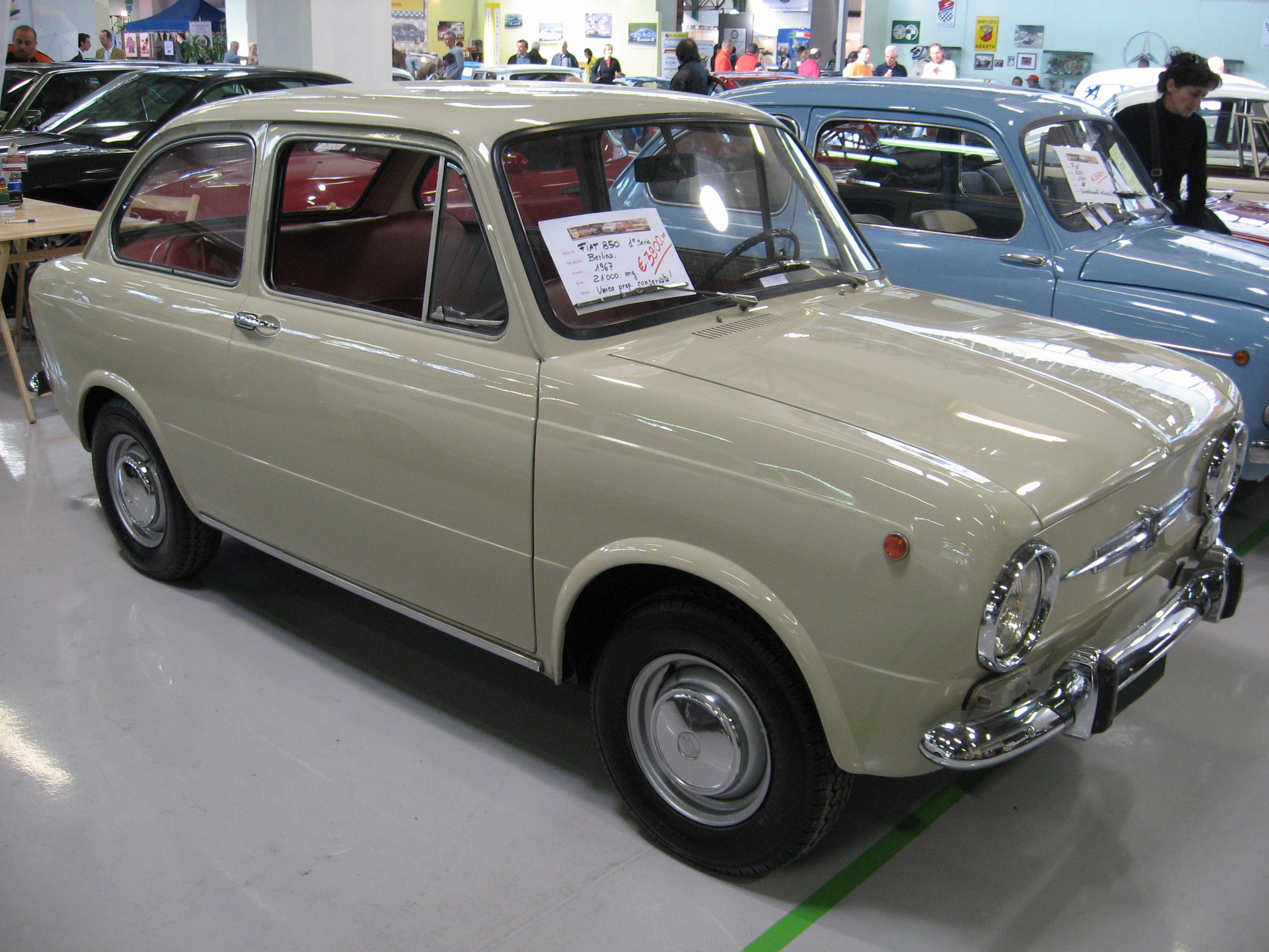 Subject:Fiat 850 Author: Luc106 Date: 18th March 2007 City/Country: Forlì (Italy) Event: Old Time Show I release all rights in the public domain.